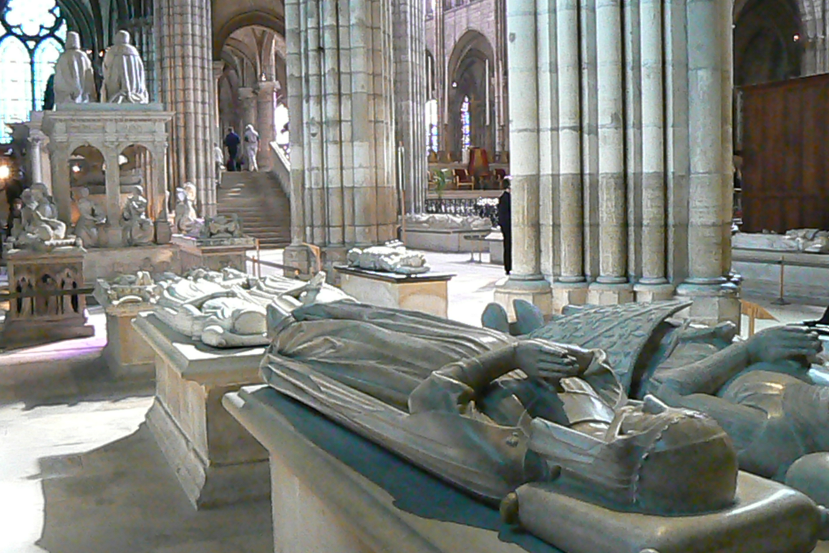 Basilica of Saint Denis, Paris, interior, tombs